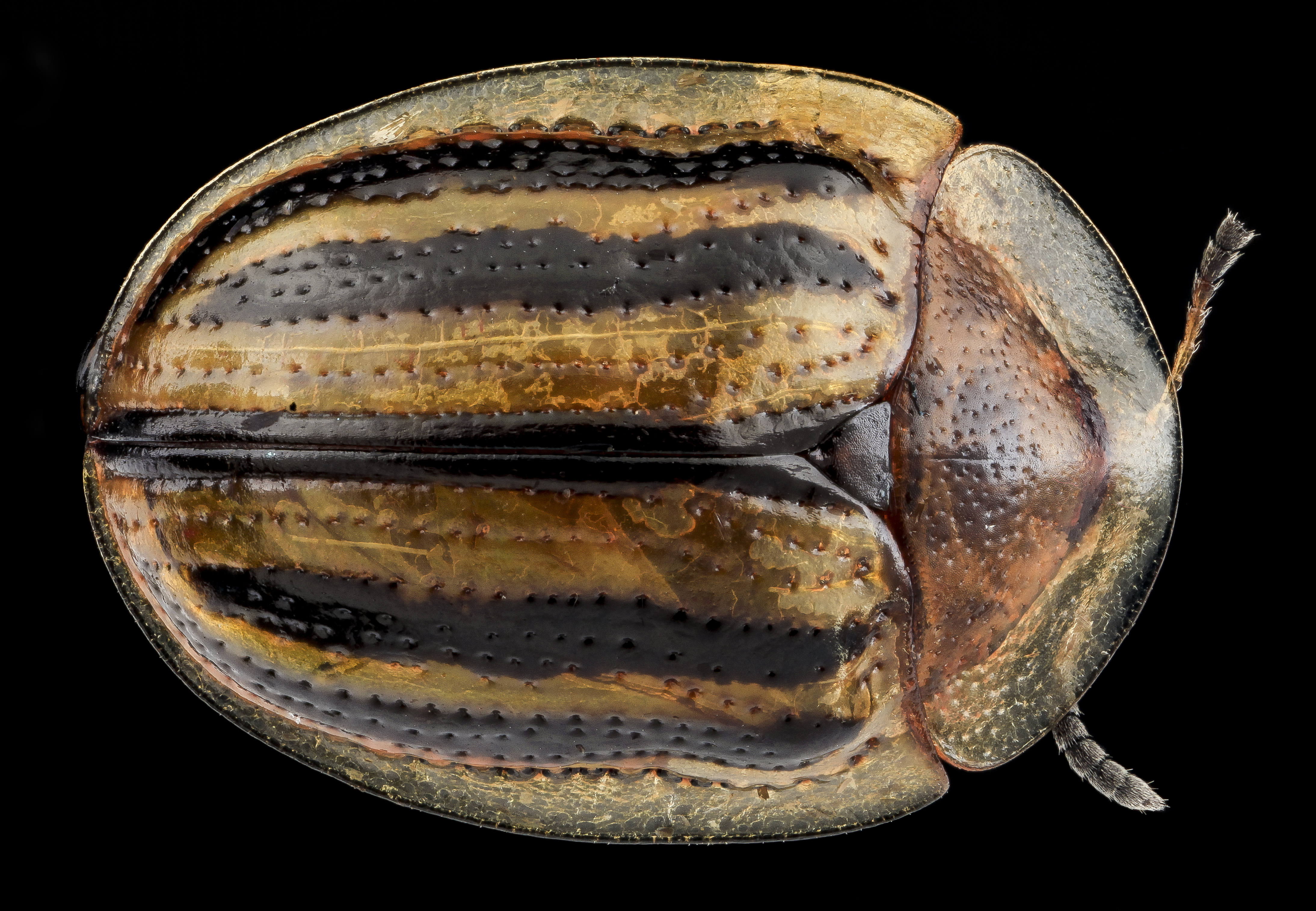 Lighting Experiment: Agroiconota bivittata - Another tortoise beetle, this one from a glycol trap collected by Brooke Alexander and photographed by Amber Reese, in this case the trick was to increase the lighting on the lower edge, what worked was laying a portion of styrofoam cup slit lengthwise ala butternut squash which nicely reflect the bounced flash back up on to the specimen. The head of the beetle is not visible and is hidden by the greatly expanded pronotum, notice the scaring around the edge of the translucent rim on this beetle, life can be rough on insects, still a nice array of browns and tans and punctures ala my fathers wingtips